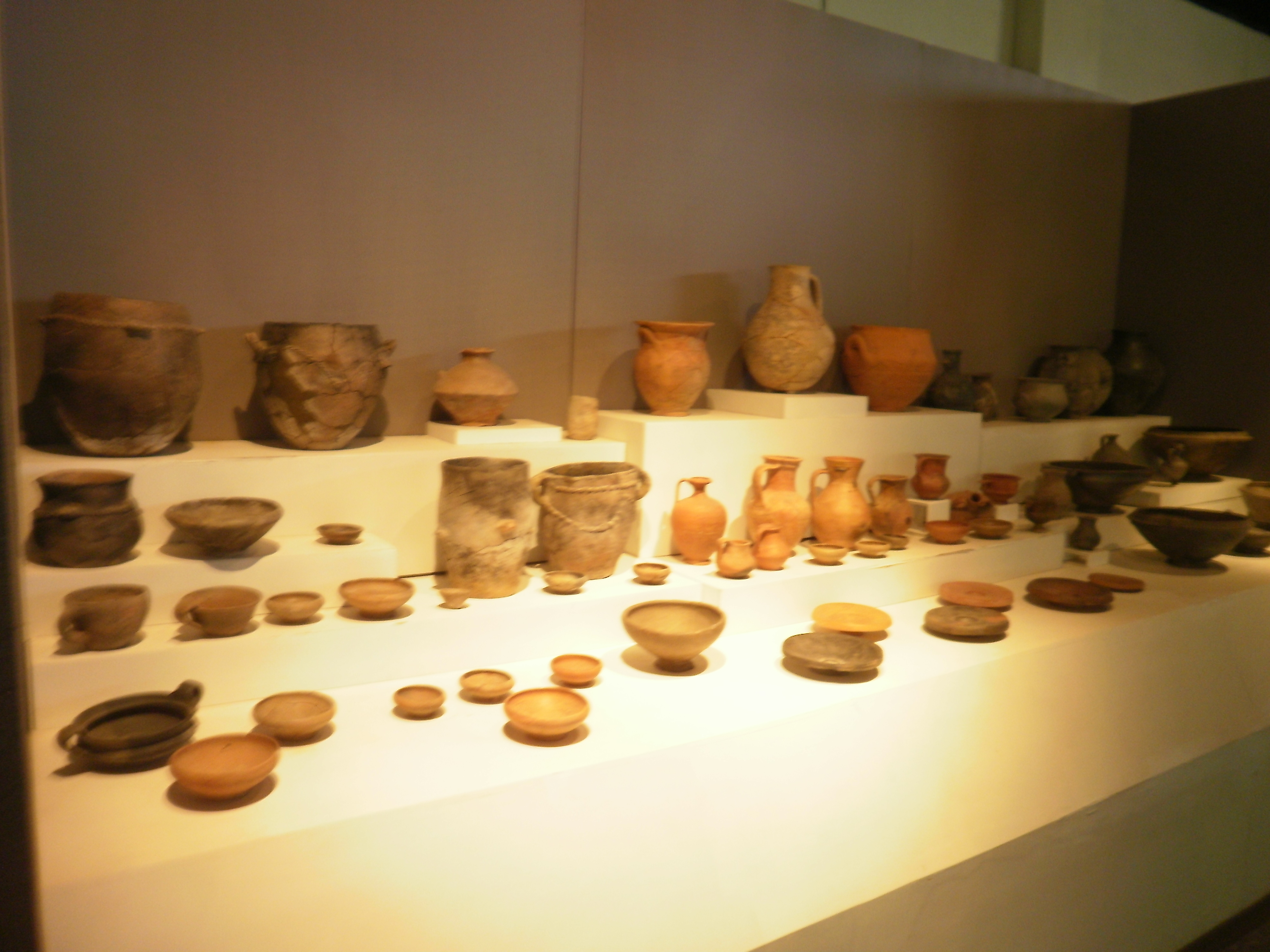 Kabile, Bulgaria